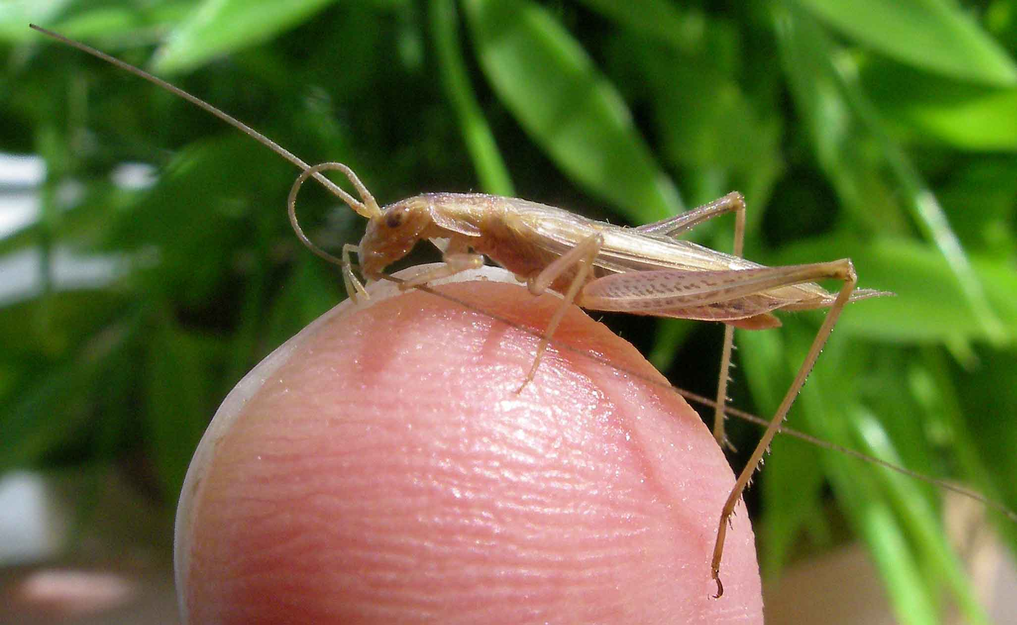 probably Oecanthus pellucens